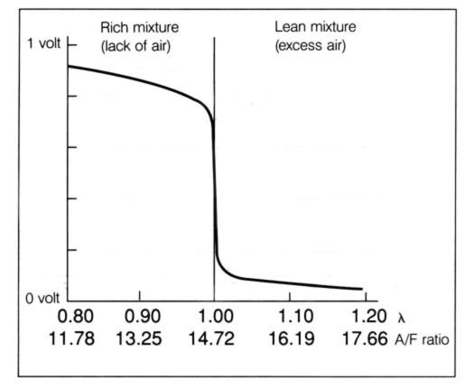 a Narrowband o2 oxygen sensor voltage vs AFR for a gas engine